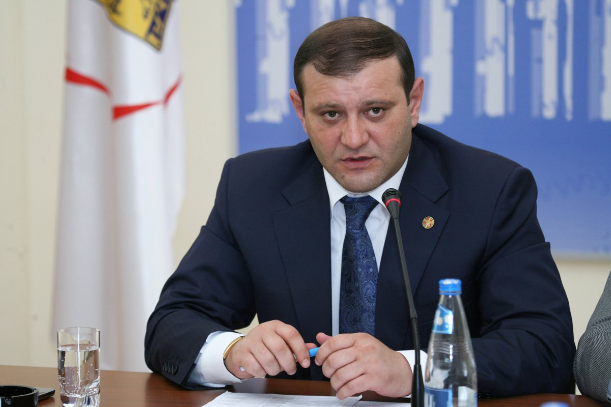 Taron Margaryan photo